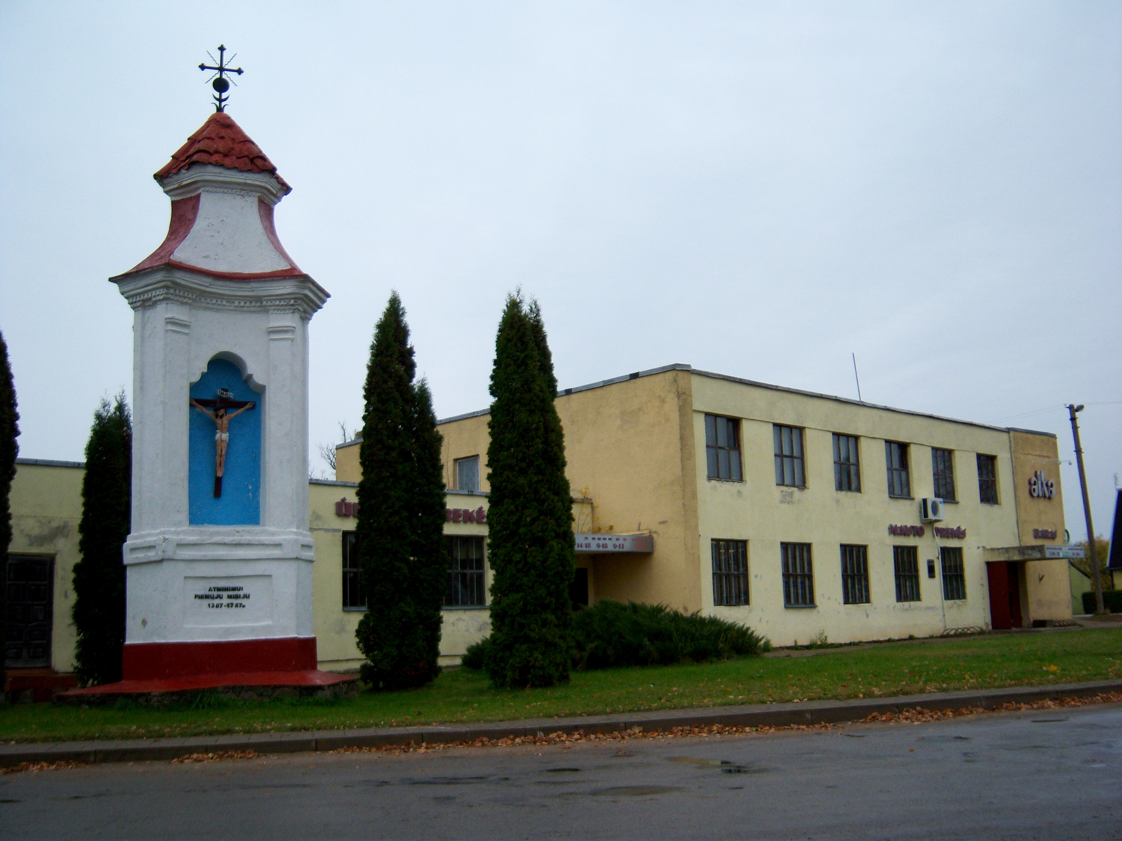 Chapel to commemorate the Sobriety Movement, Skapiškis, Kupiškis District, Lithuania